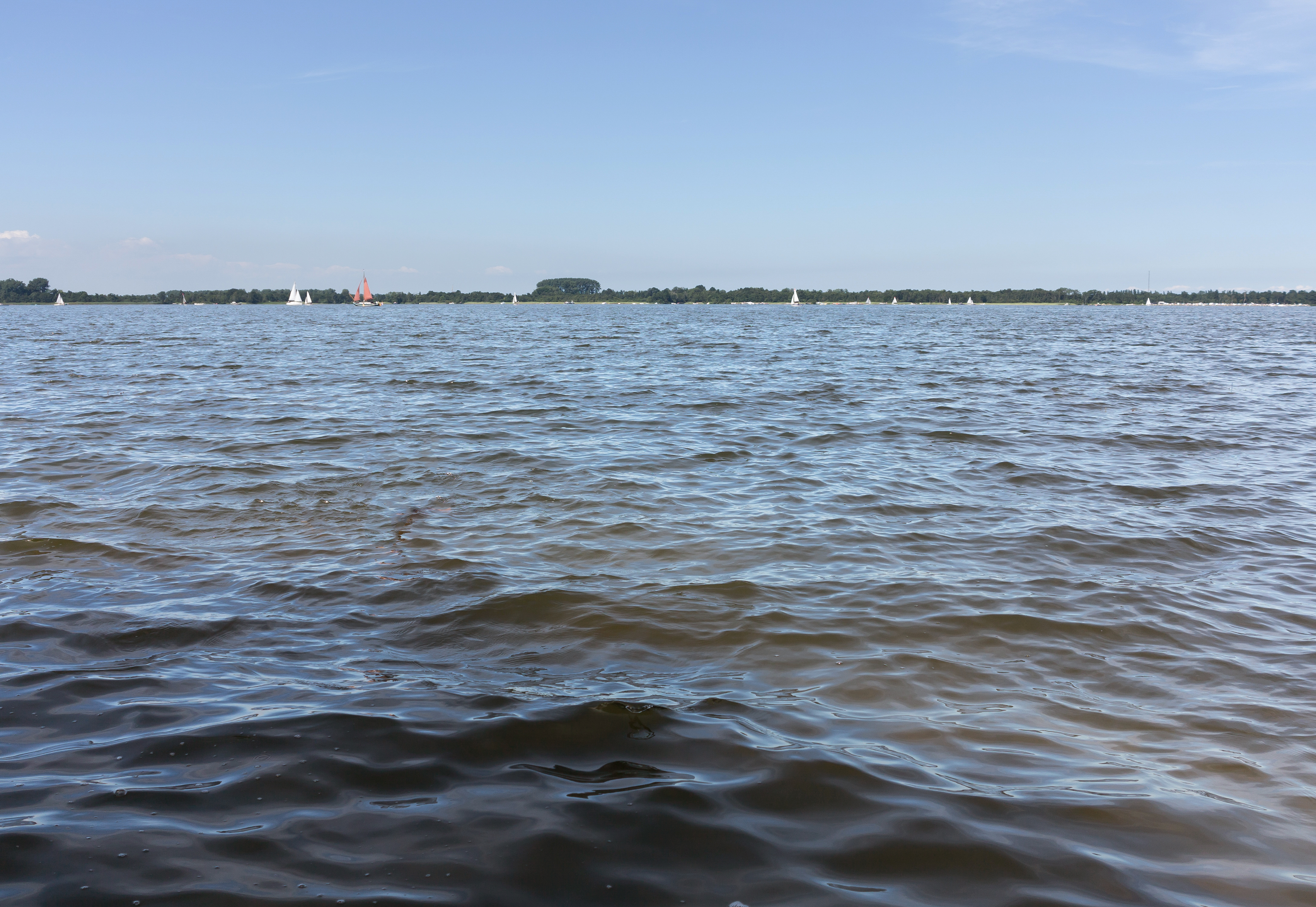 between Oud-Loosdrecht and Loenen ad Vecht, lake: de Loosdrechtse Plassen